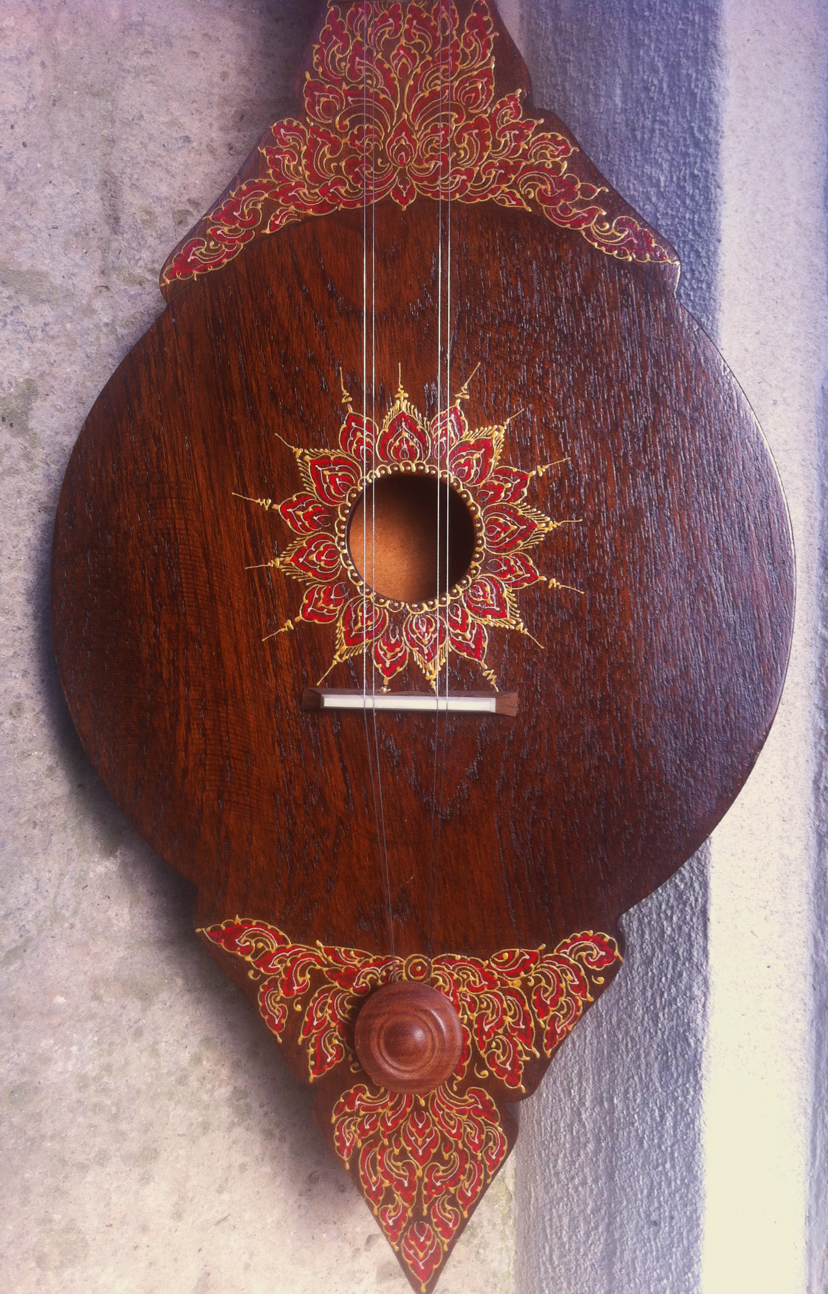 handmade lai thai decoration by Chiang Mai artisan